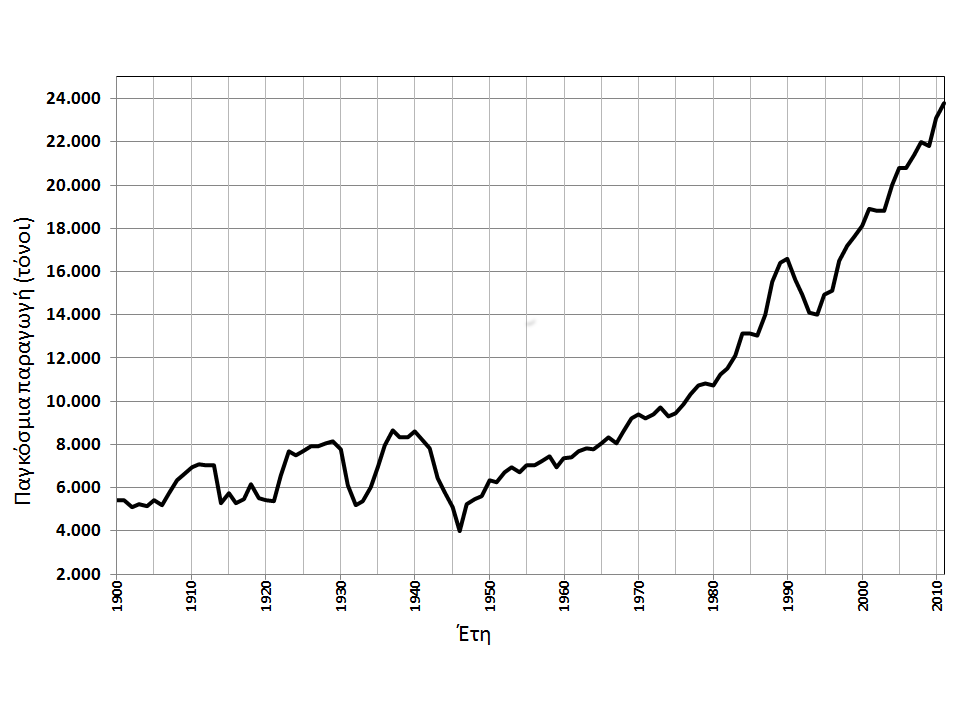 Silver_world_production_1900-2011